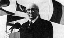 U.S. Rep. Charles Melvin Price at the dedication ceremony of the Fermilab.